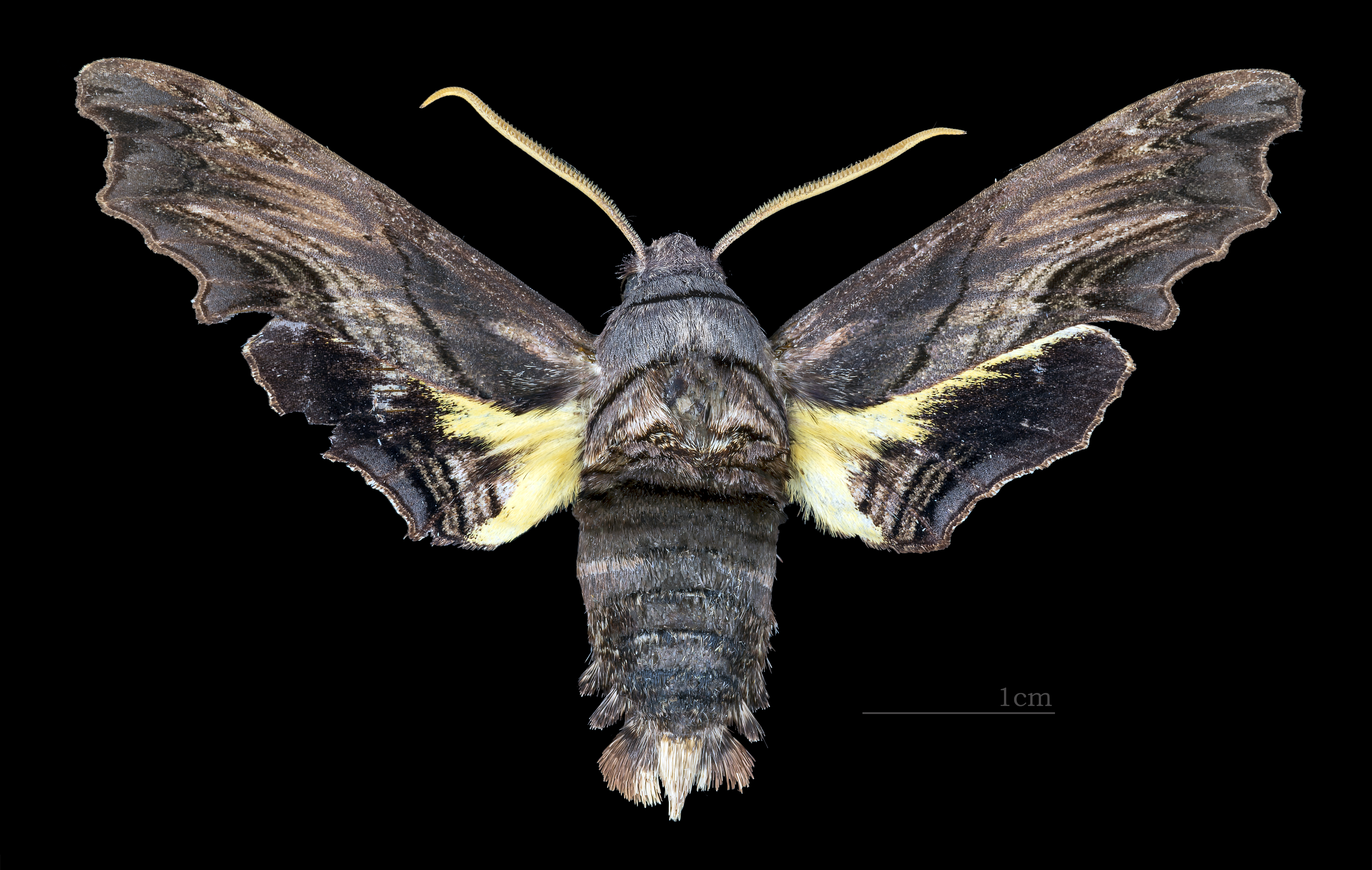 Abbott's sphinx - Dorsal side Collection of the Mathematician Laurent Schwartz